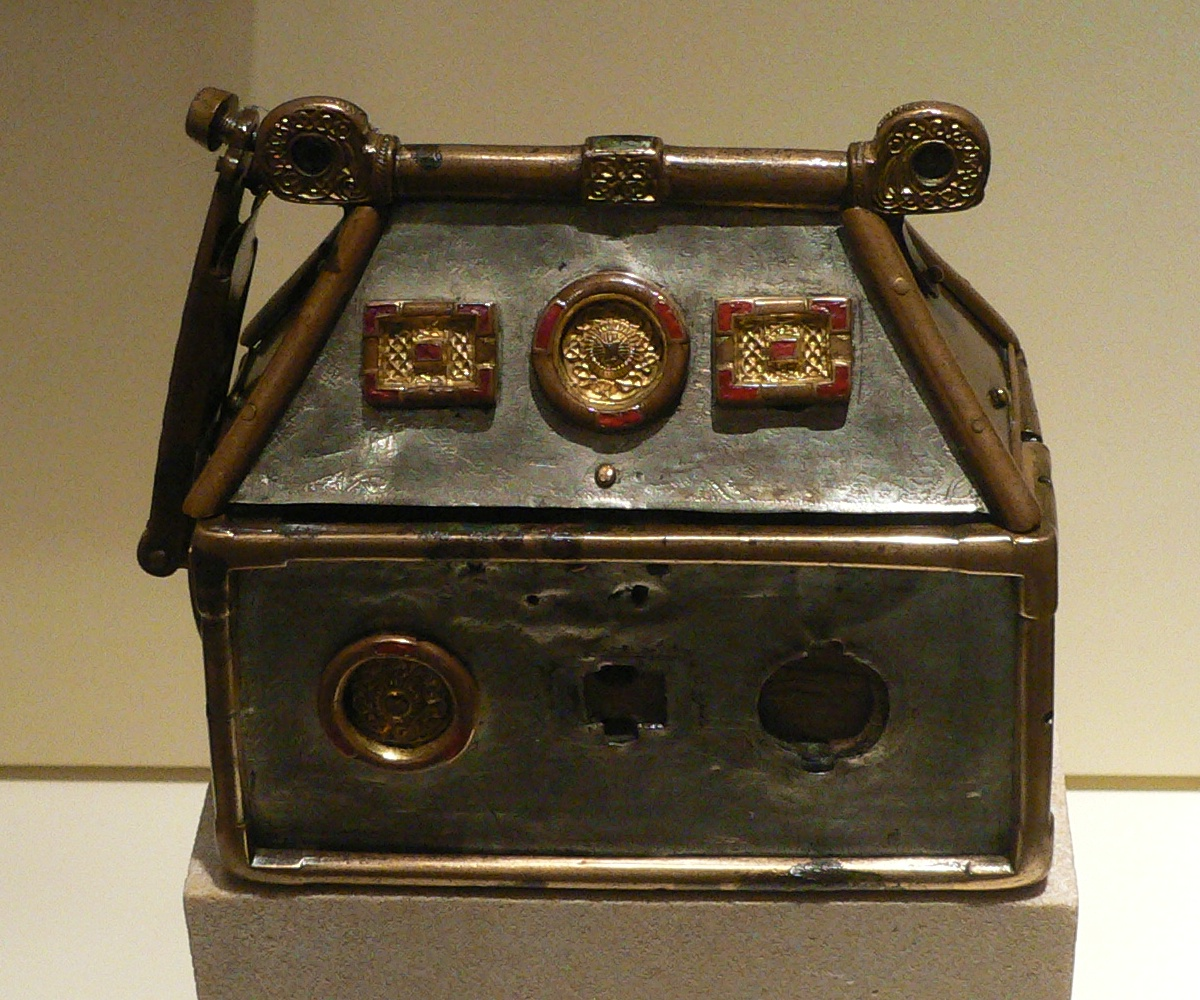 Monymusk Reliquary in the National Museum of Scotland (Edinburgh). c. 750. Wood, silver and cooper.